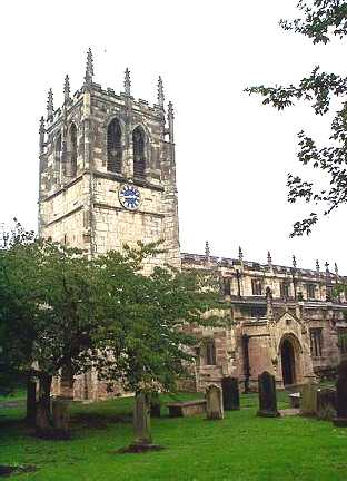 Tadcaster, Church of St Mary The Virgin. This Church is almost central in the O/S grid it occupies